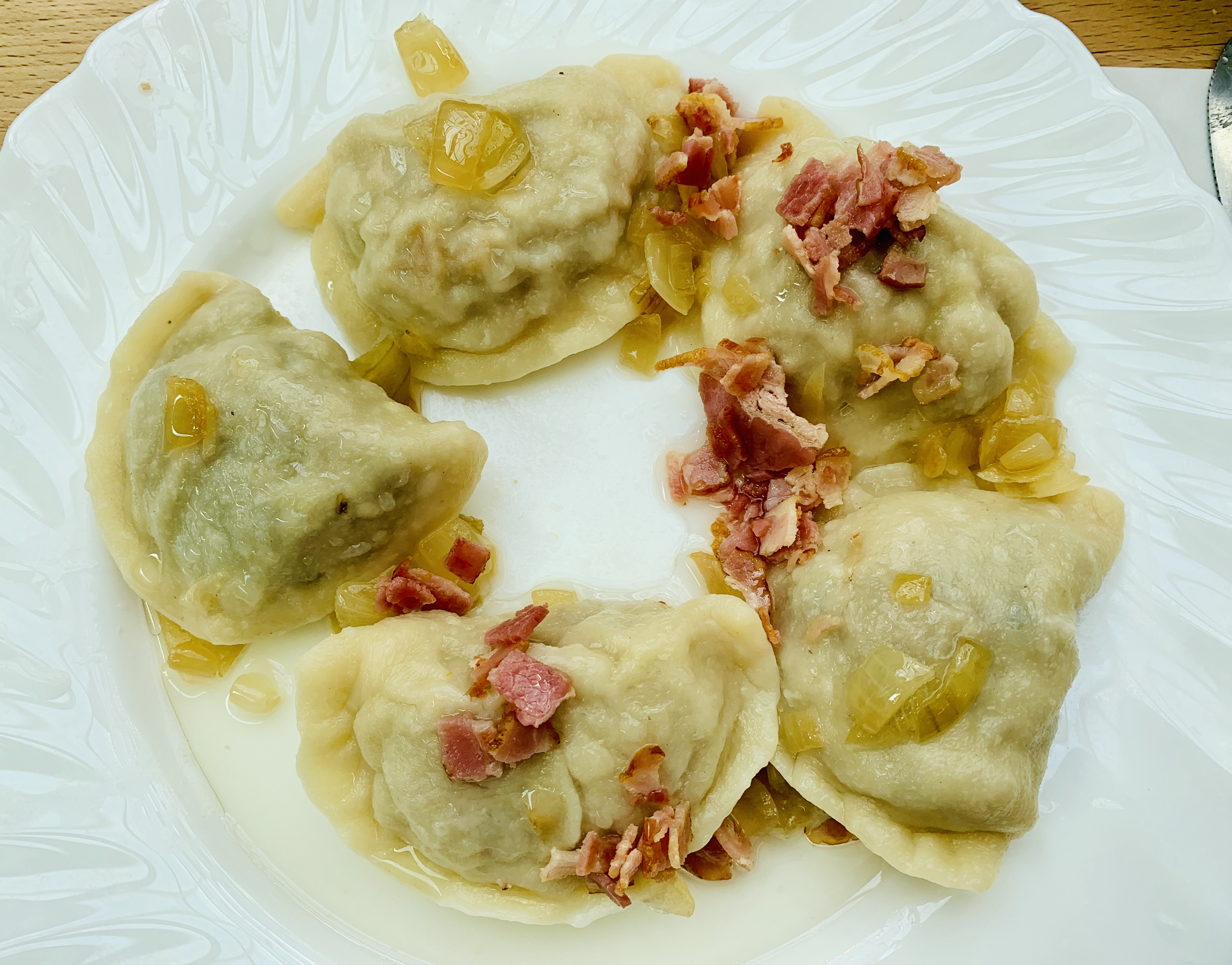 Pierogi in Warsaw, 2019